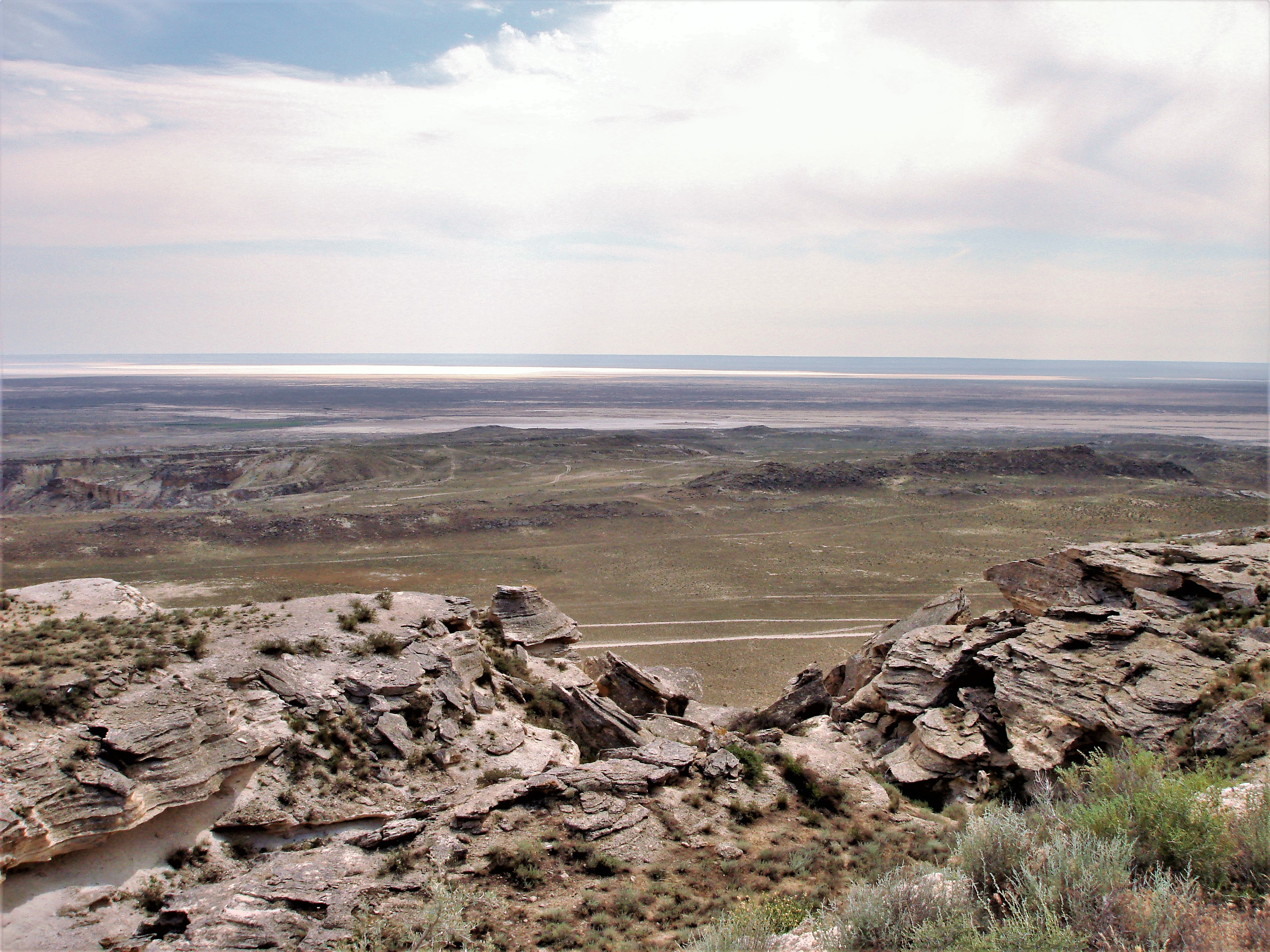 View of Karagiye Depression (132 m below sea level)